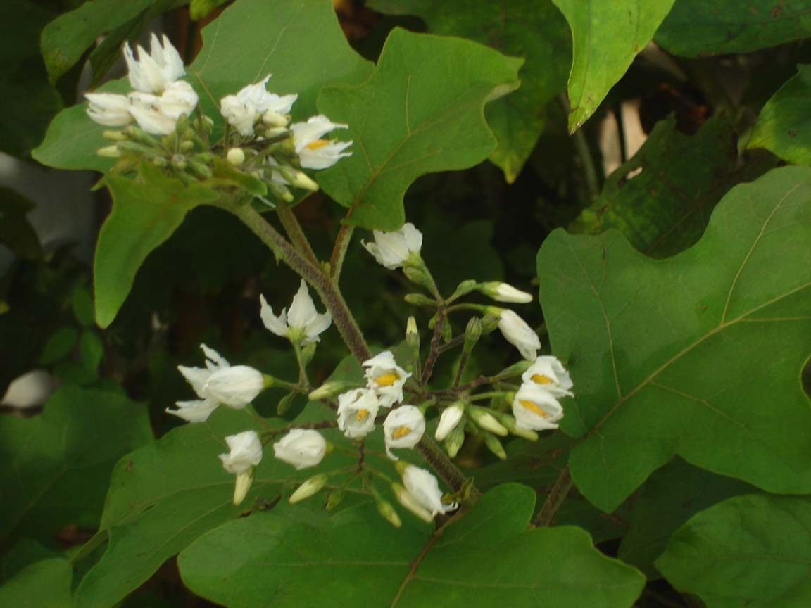 Solanum torvum, (tisaipele) a common Tongan weed nowadays